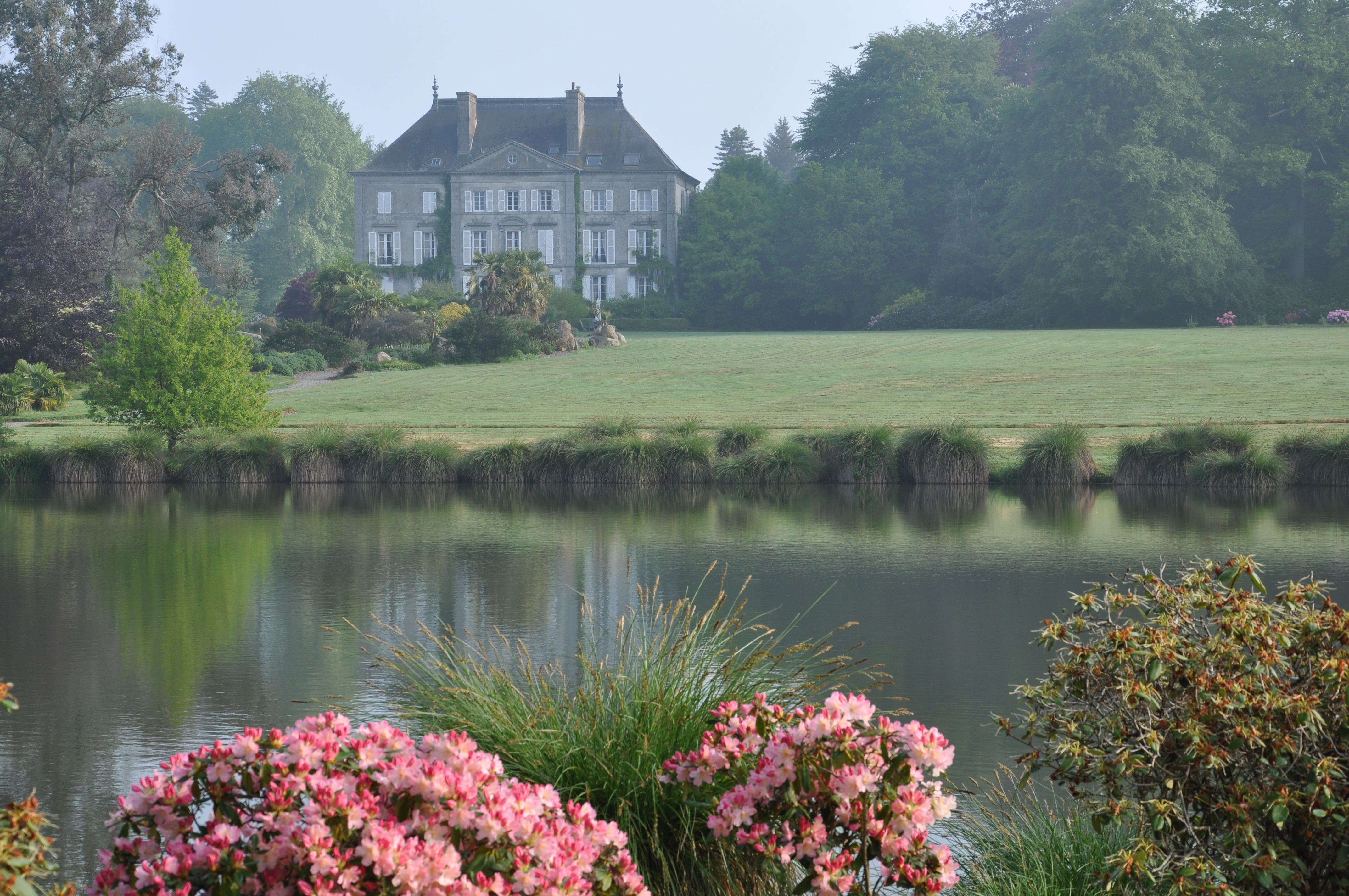 Castle of The Foltiere in the middle of the Botanical garden of Upper Brittany, France.